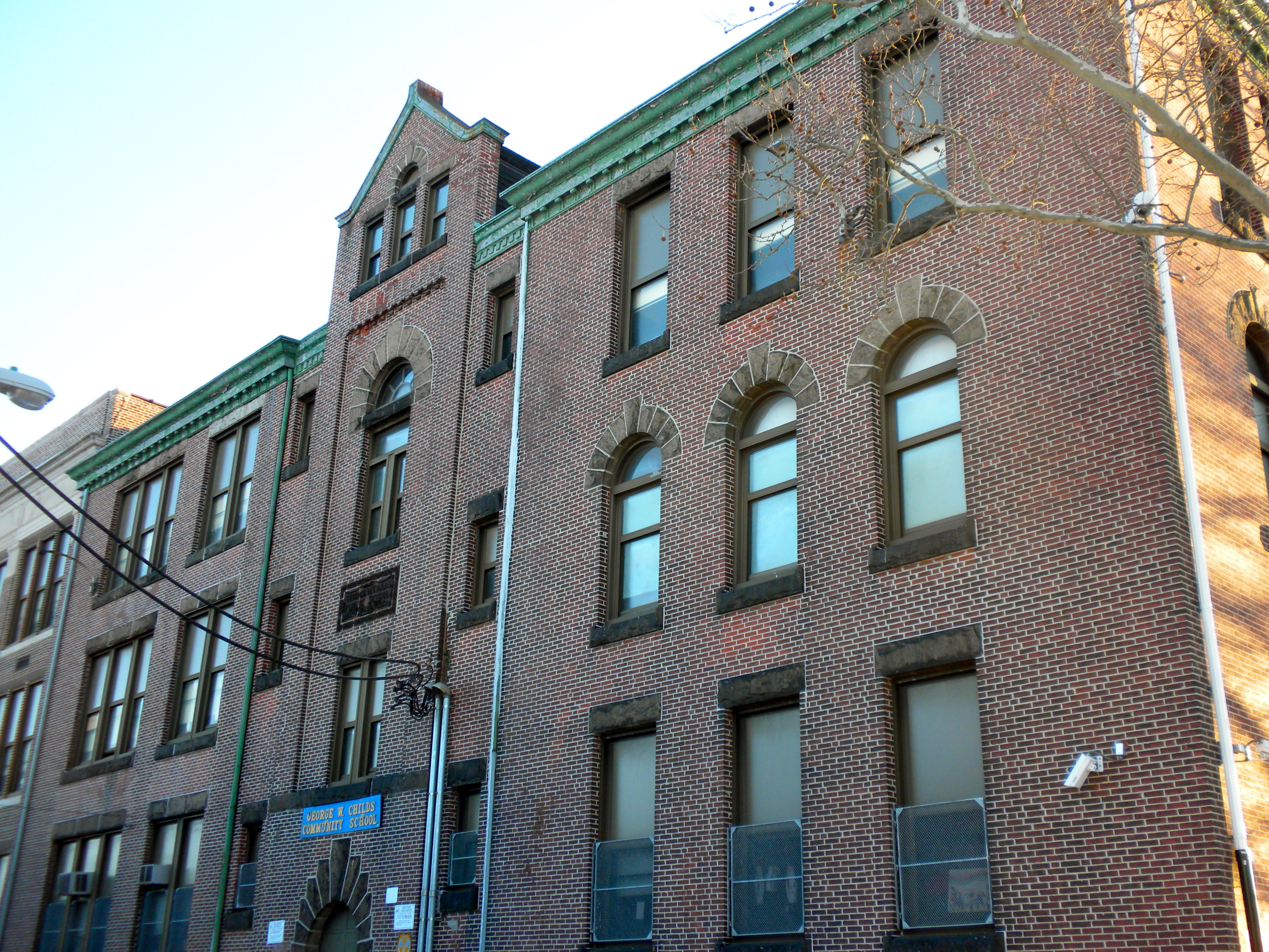 Former George W. Childs School on NRHP since November 18, 1988. 1501 South 17th Street, in Point Breeze neighborhood of South Philadelphia.